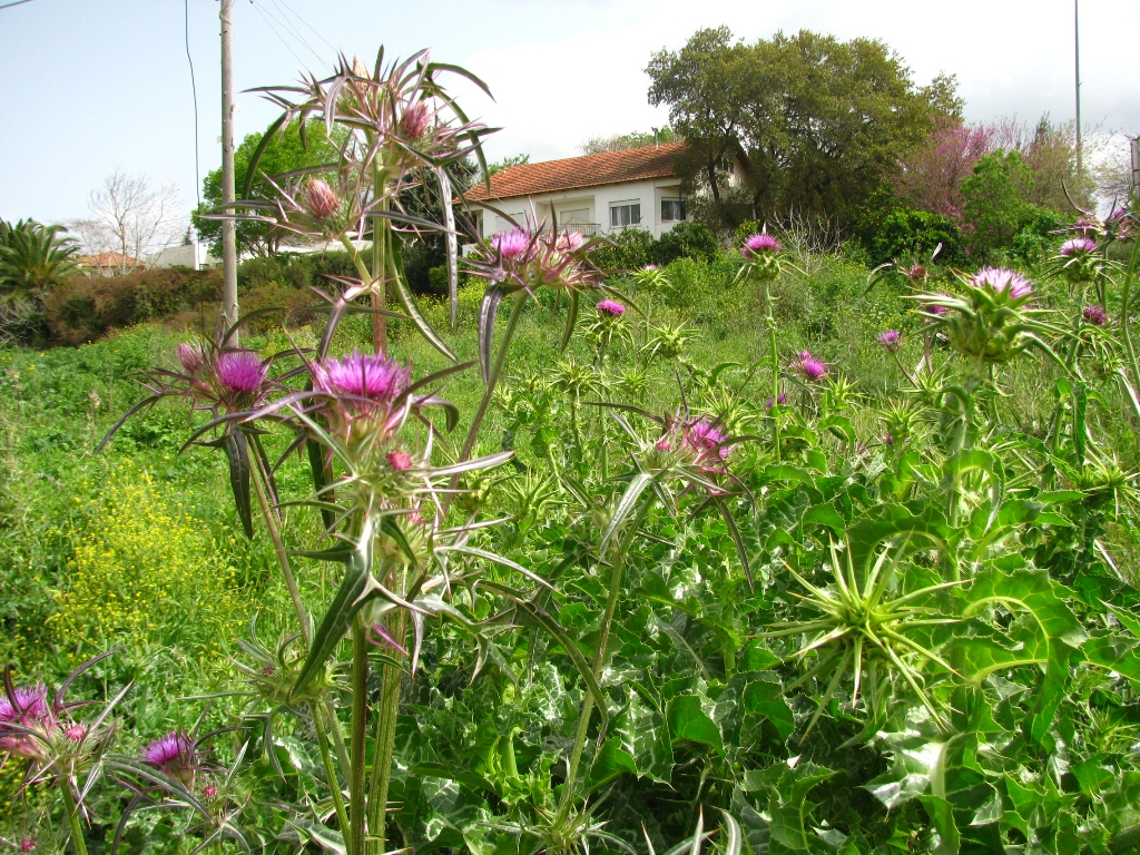 Fields Bethlehem of Galilee